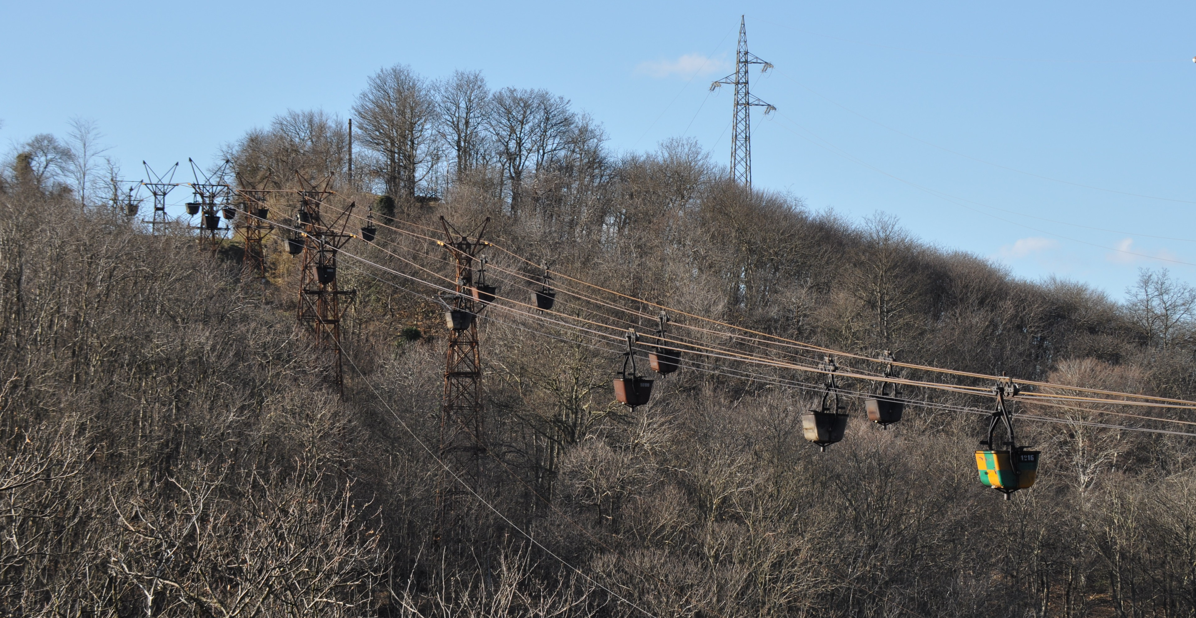 Ropeway Conveyer Savona-San Giuseppe